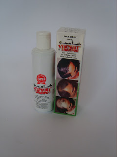 Zeng Guoyuan's "Vegetable Shampoo" for hair regrowth, in its original packaging. Taken in 2008.